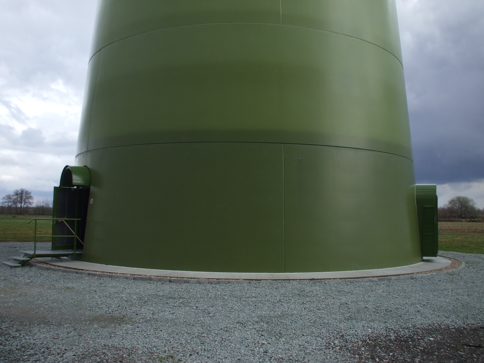 Base of an Enercon E-126 wind turbine.